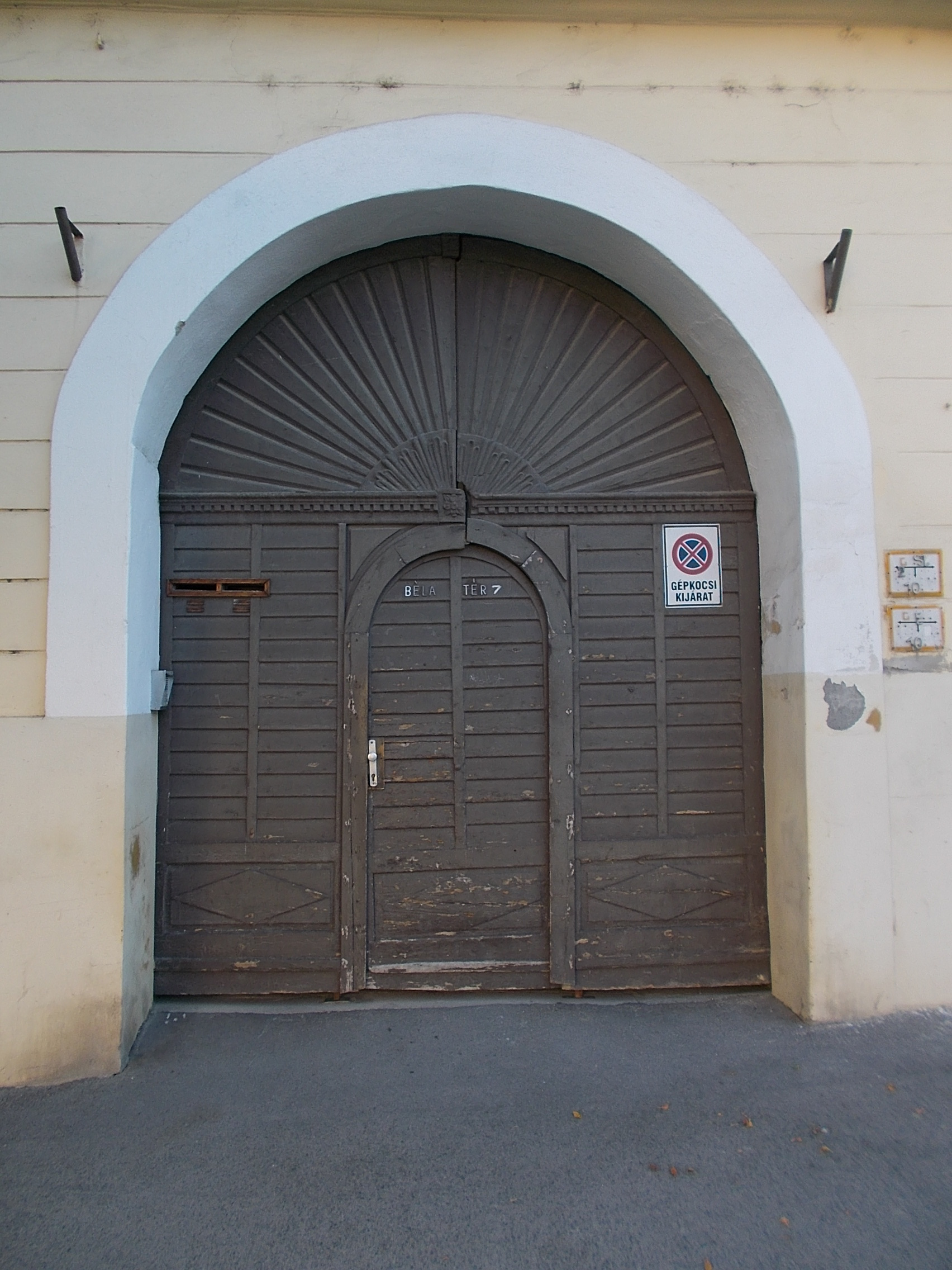 Fischhof-house - 7 King Béla Square, Szekszárd, Tolna County, Hungary.